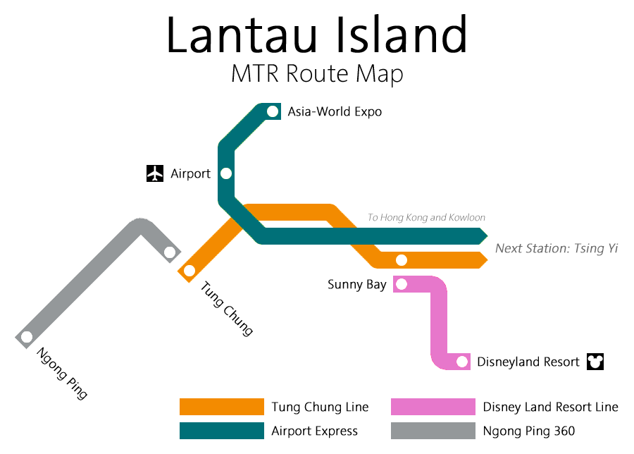 MTR route map, indicating MTR routes and stations in the Lantau and airport area.